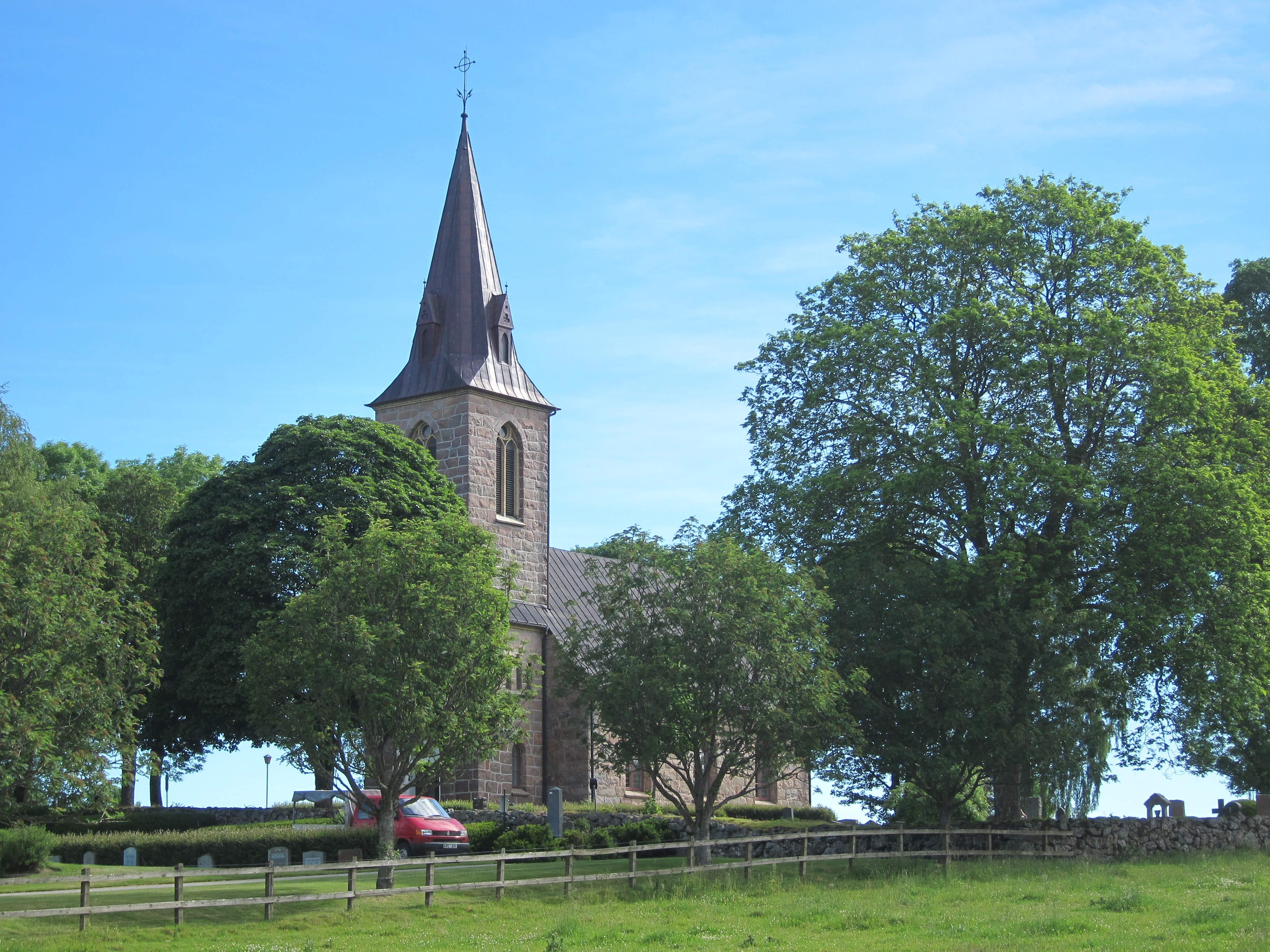 Ulricehamn SV, Sweden